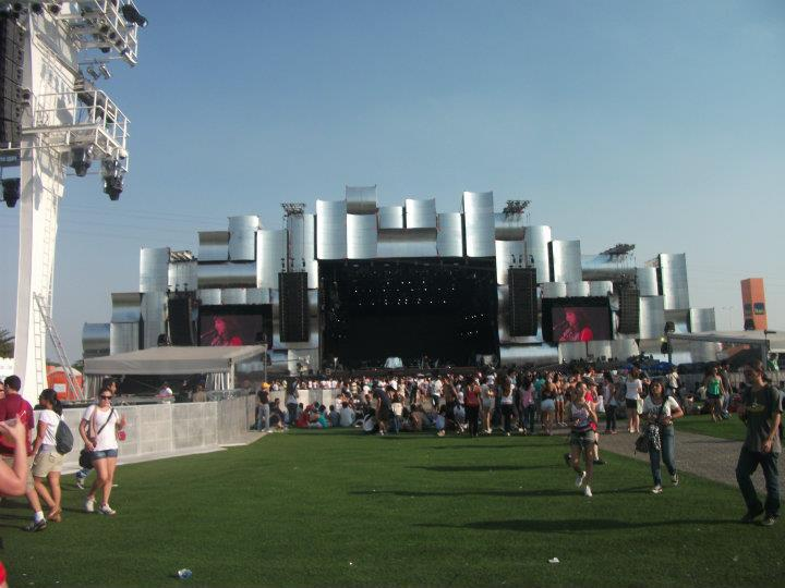 The World Stage at the Rock in Rio 4 in Rio de Janeiro, Brazil